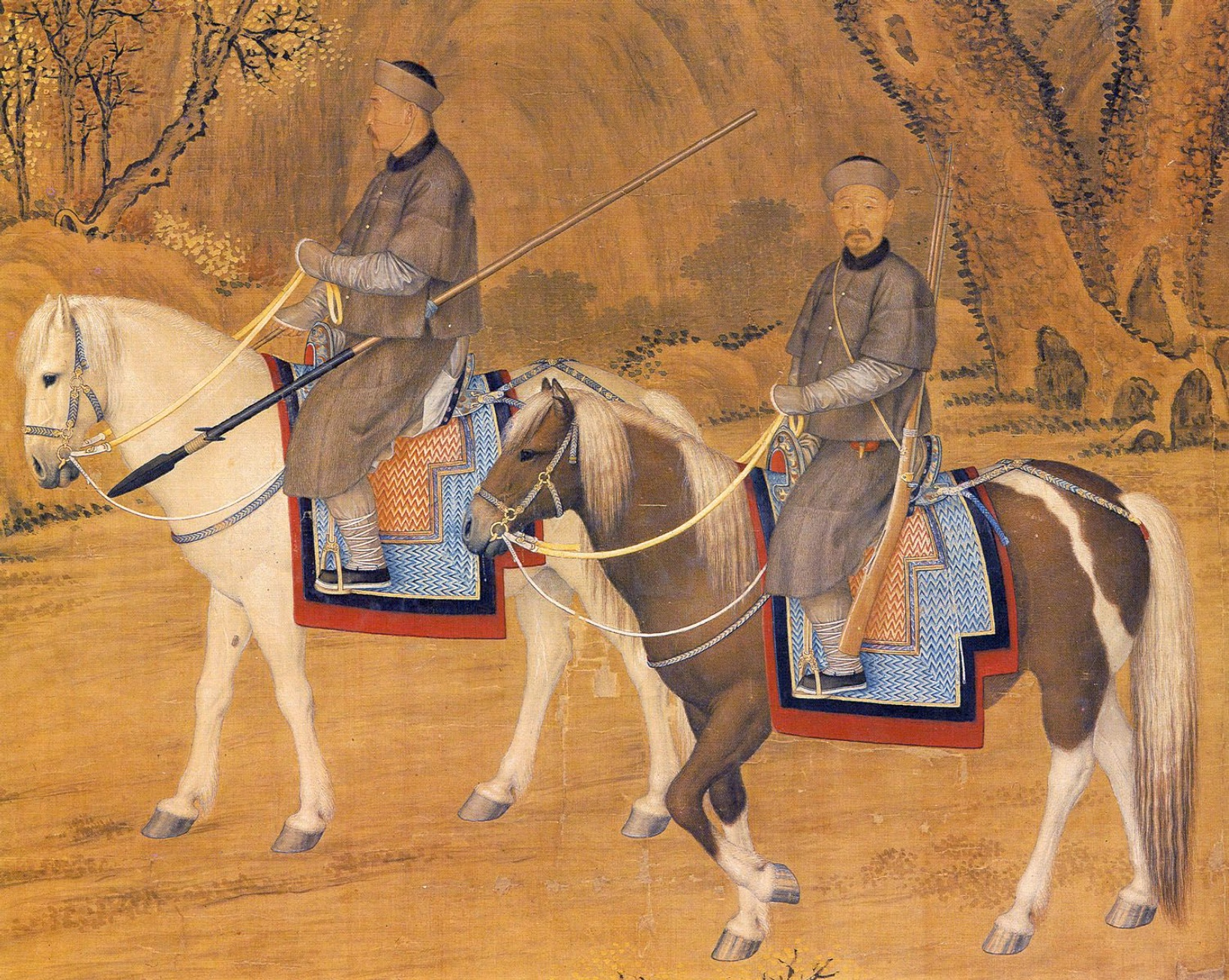 Detail of the two lead riders.